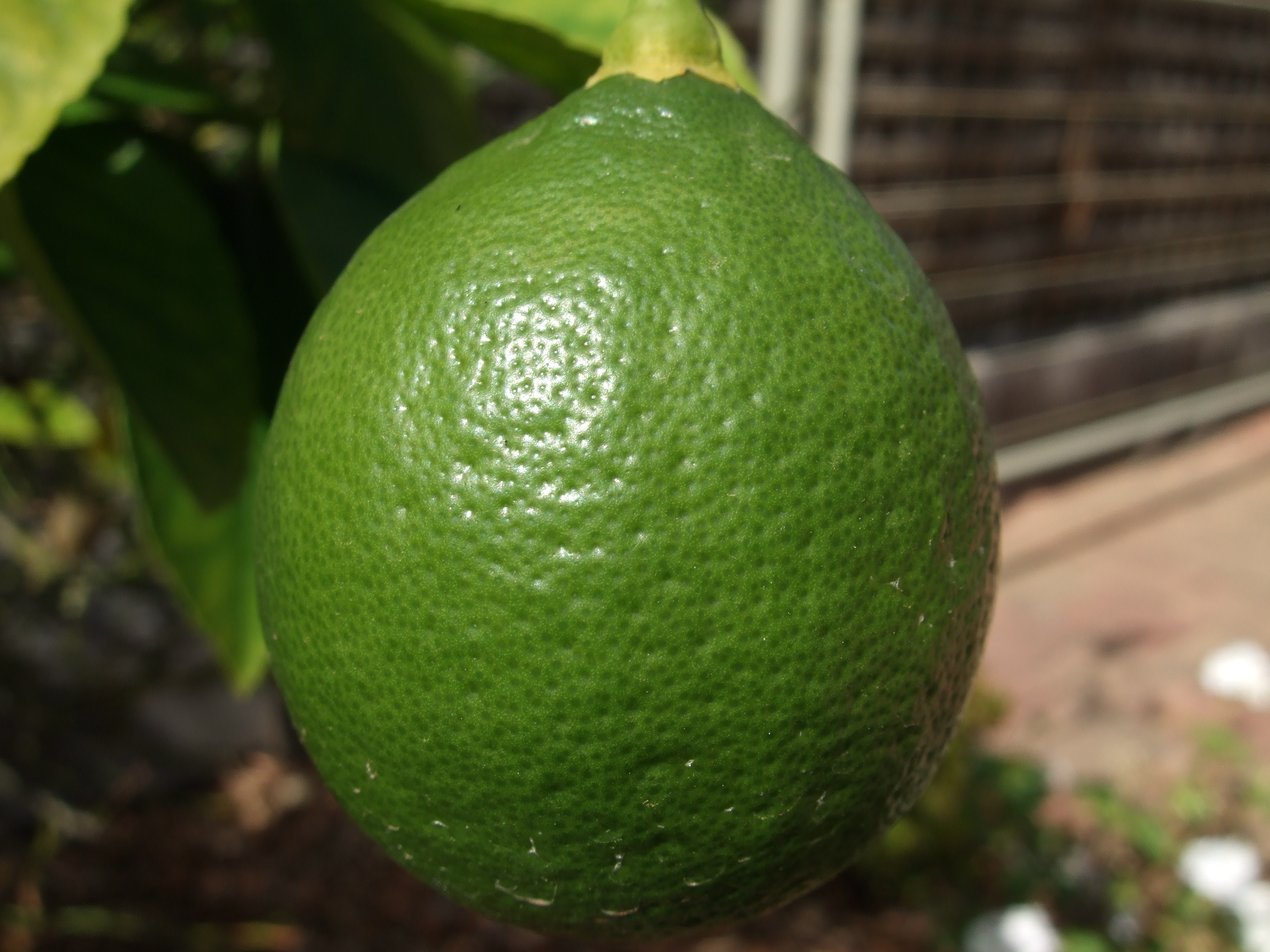 ripening lemon